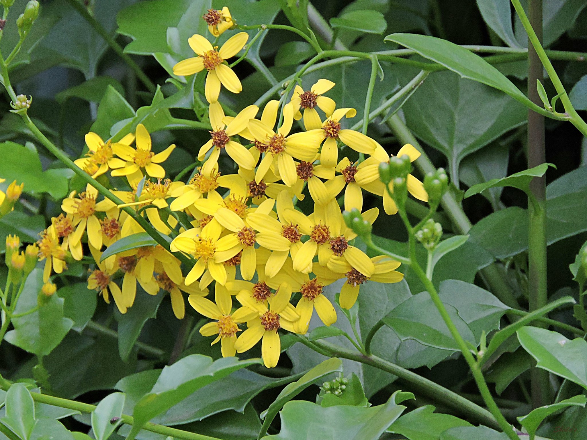 Creeping groundsel's glossy leaves and yellow flowers